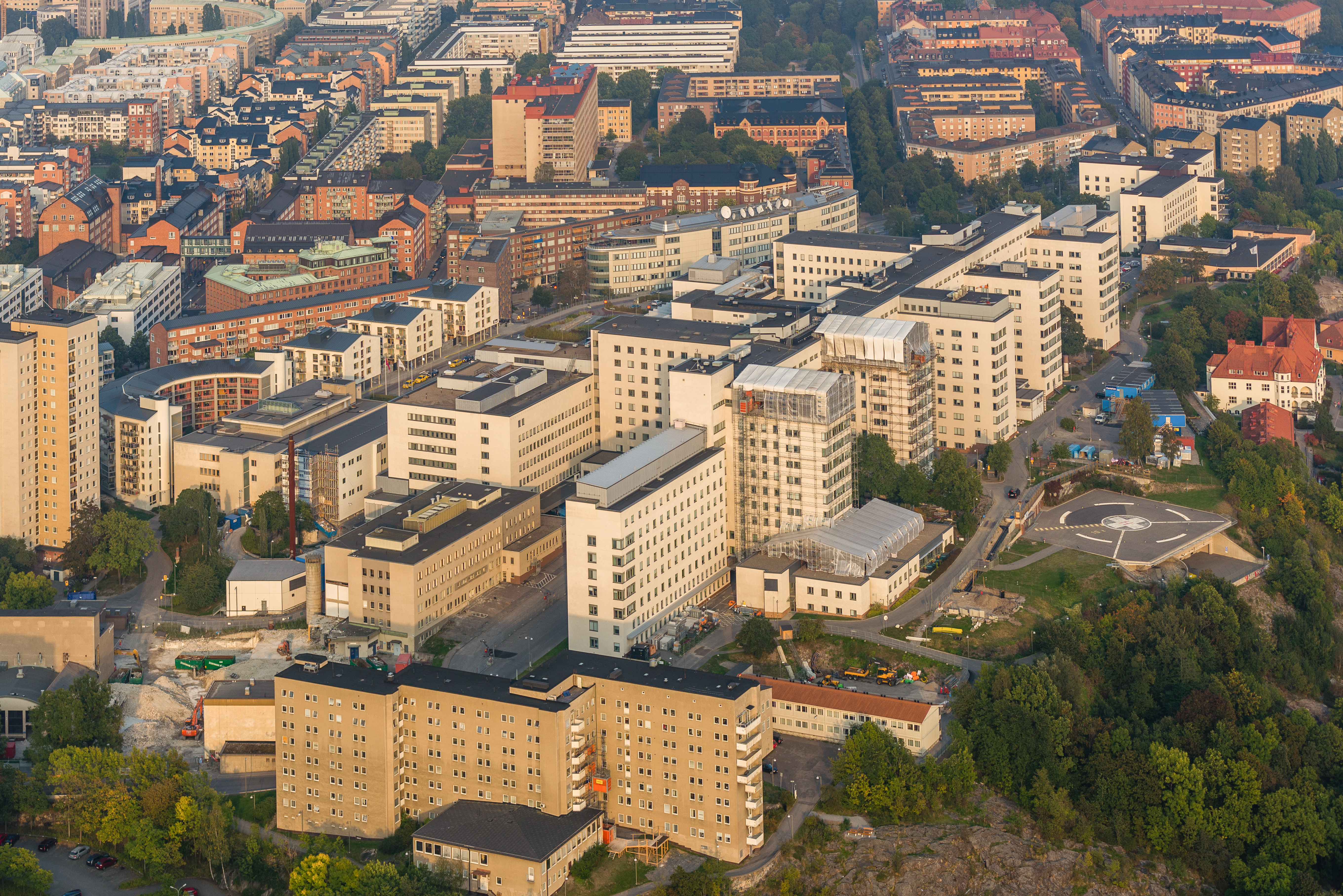 Södersjukhuset constructed between 1937 and 1944 is one of the largest hospitals in Stockholm, Sweden. It was designed by architects Hjalmar Cederström and H. Imhäuser. Södersjukhuset has the largest emergency department in northern Europe.